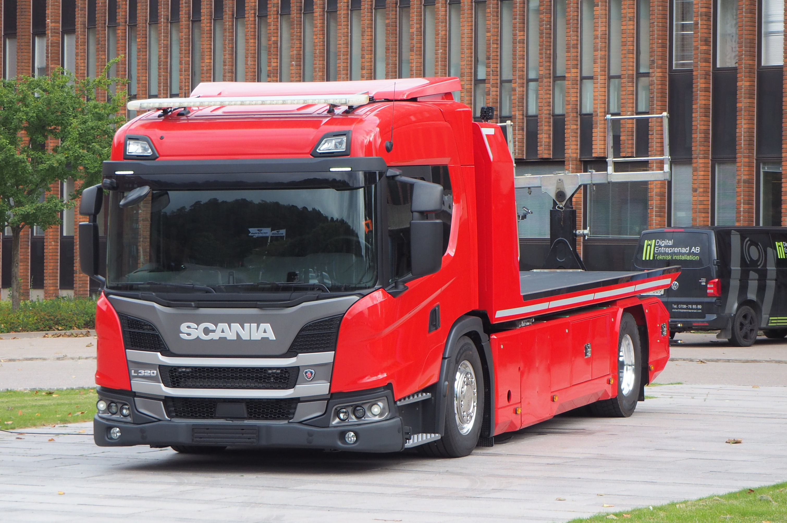 2018 Scania L320 tow truck.